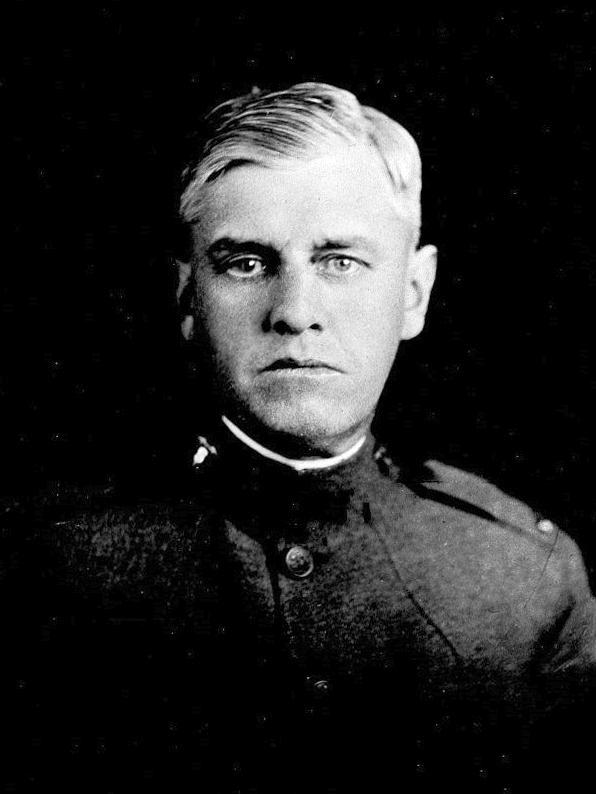 Thomas Burke in uniform